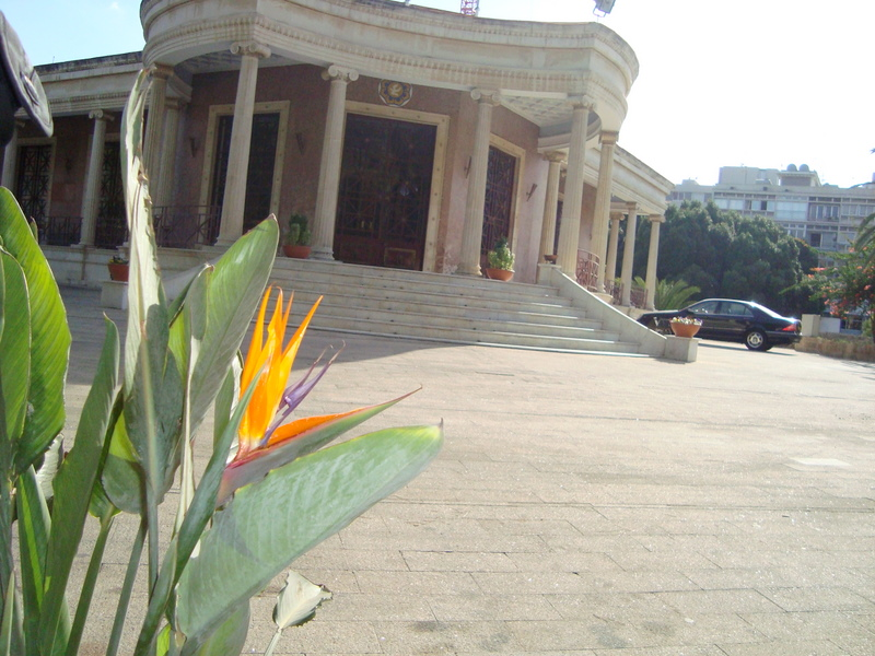 Nicosia Cyprus capital City hall. Nicosia Municipality offices .